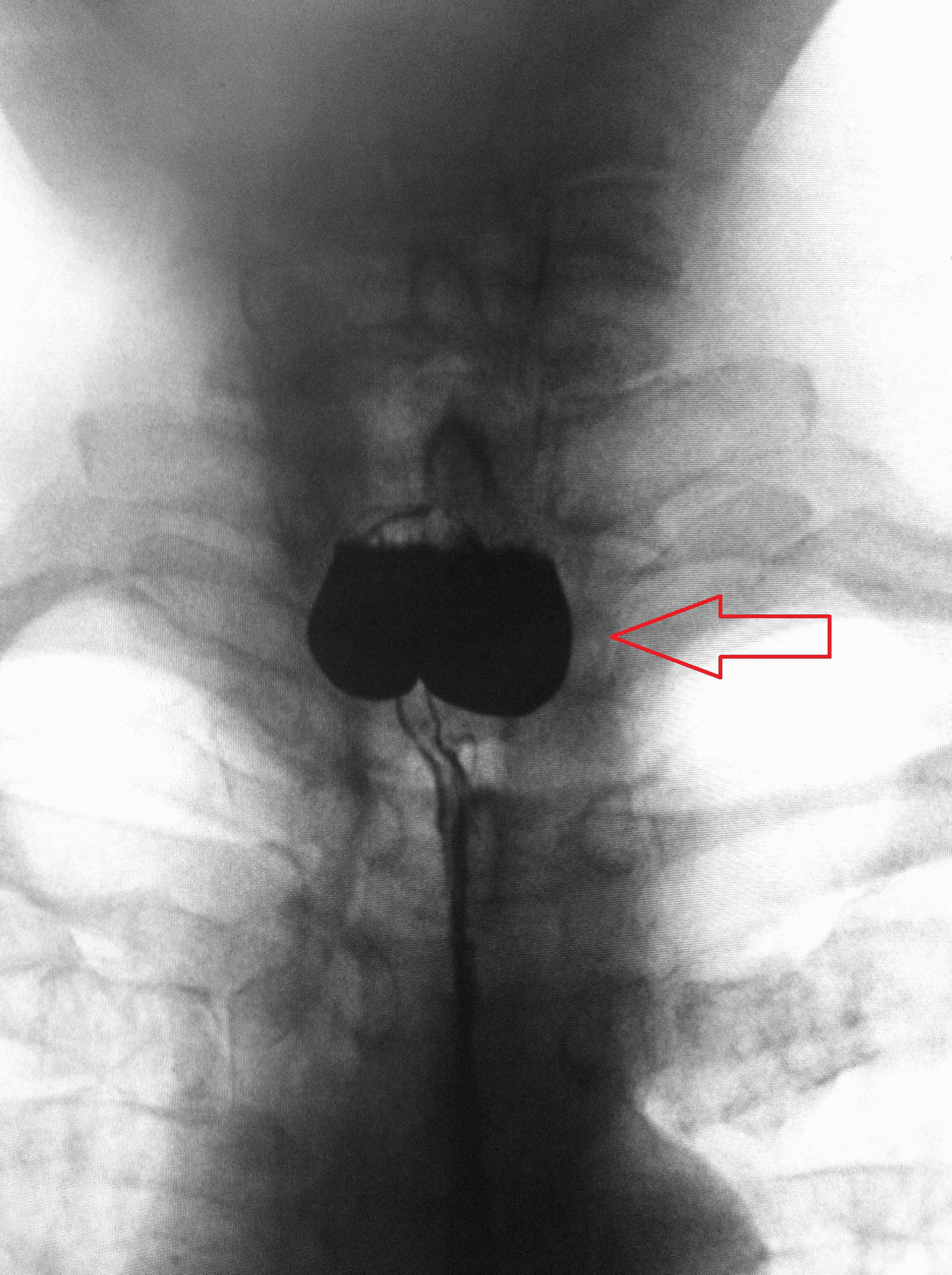 Xray showing a Zenker's diverticula (AP)